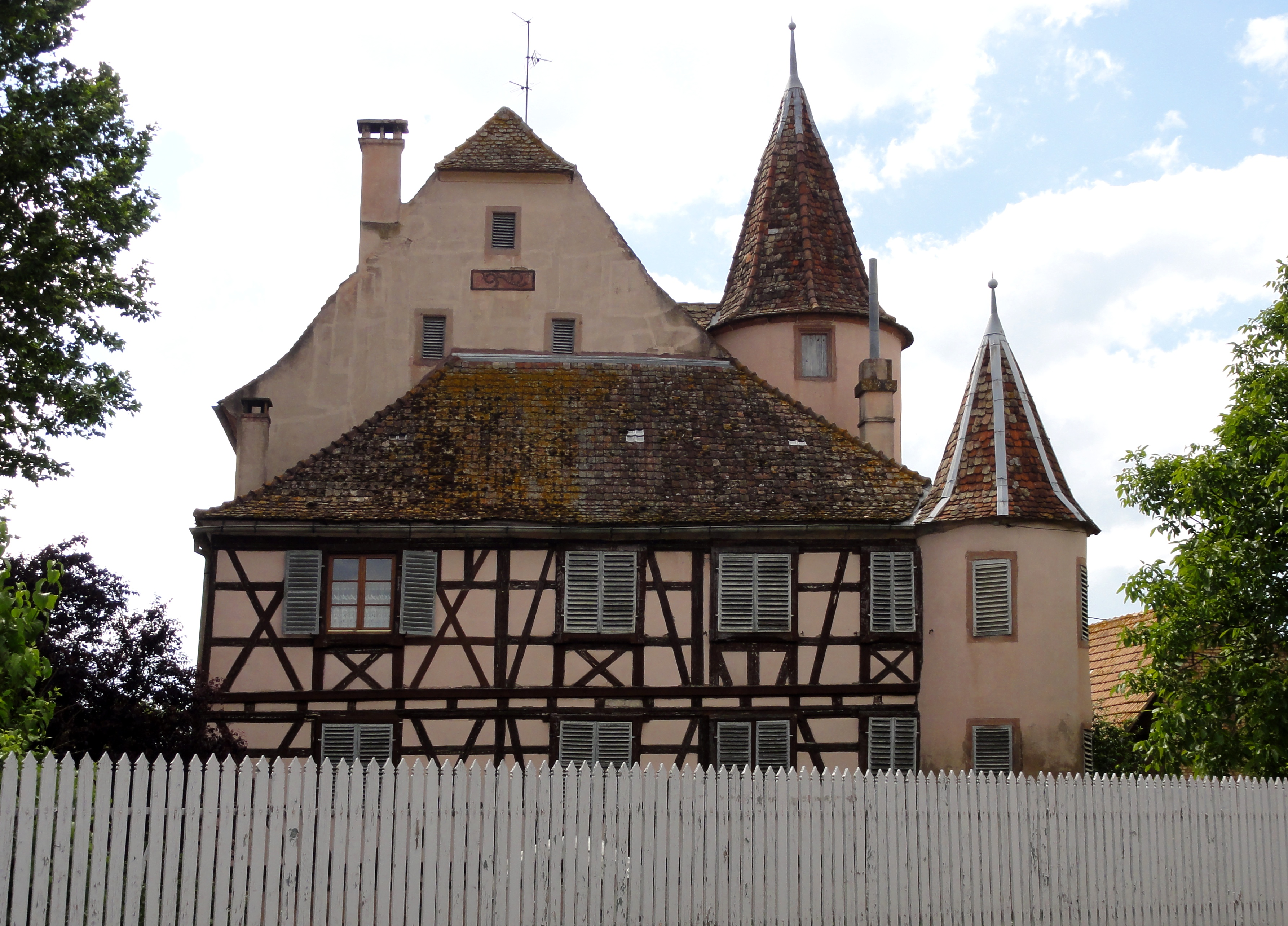 Alsace, Bas-Rhin, Ernolsheim-Bruche, Château d'Urendorf (XVIe-XVIIe), 1 rue du Château. It is indexed in the Base Mérimée, a database of architectural heritage maintained by the French Ministry of Culture, under the references PA00084705 and IA67011867 .